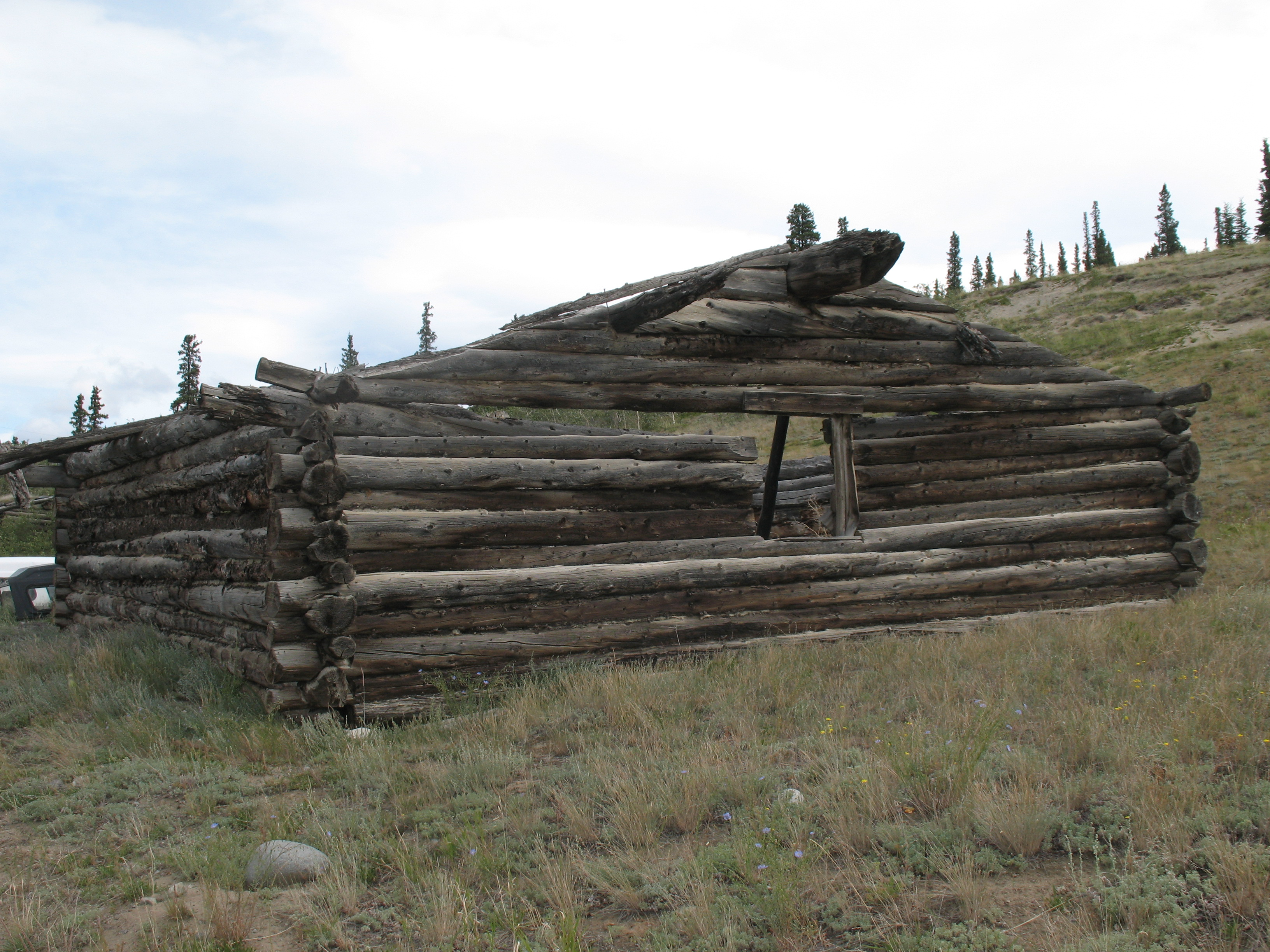 Champagne, Yukon, old log cabin